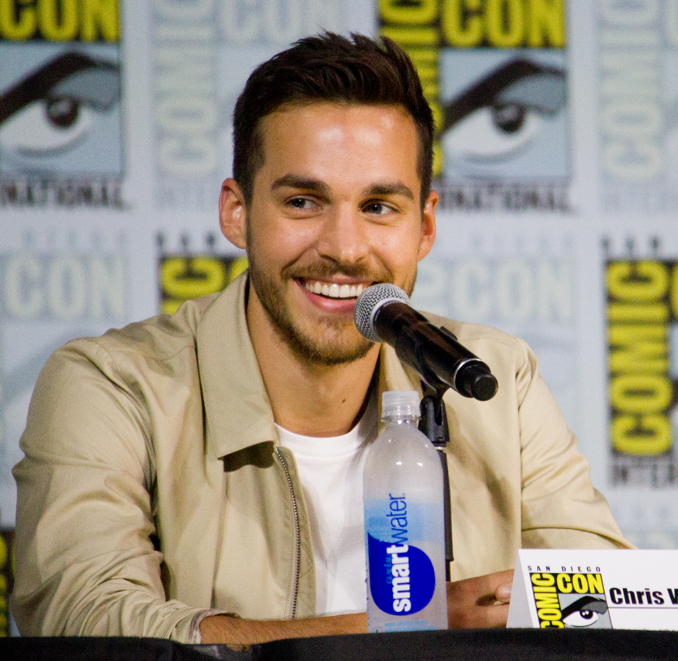 Cast & creators panel at SDCC 2017